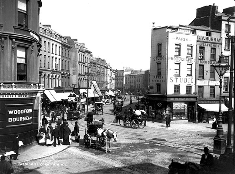 View of St. Patrick's Street in Cork, Ireland. Photo taken from Daunt's Square looking east. Image dated to circa 1890. National Library of Ireland reference LROY 1918